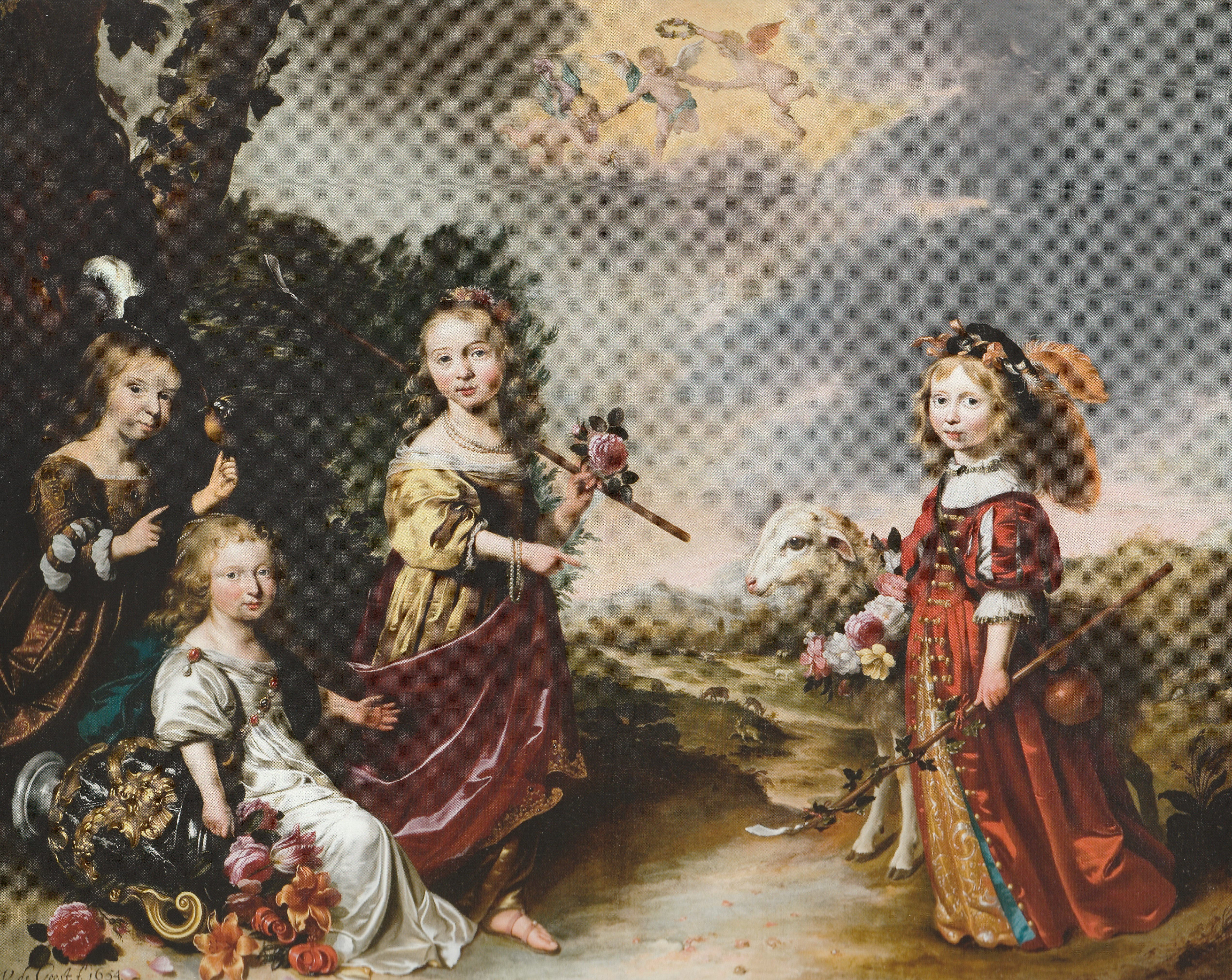 Portrait of the children of Pieter van Harinxma thoe Sloten, size 164 x 209 cm, canvas, Van Harinxma thoe Slooten Stichting, Beetsterzwaag